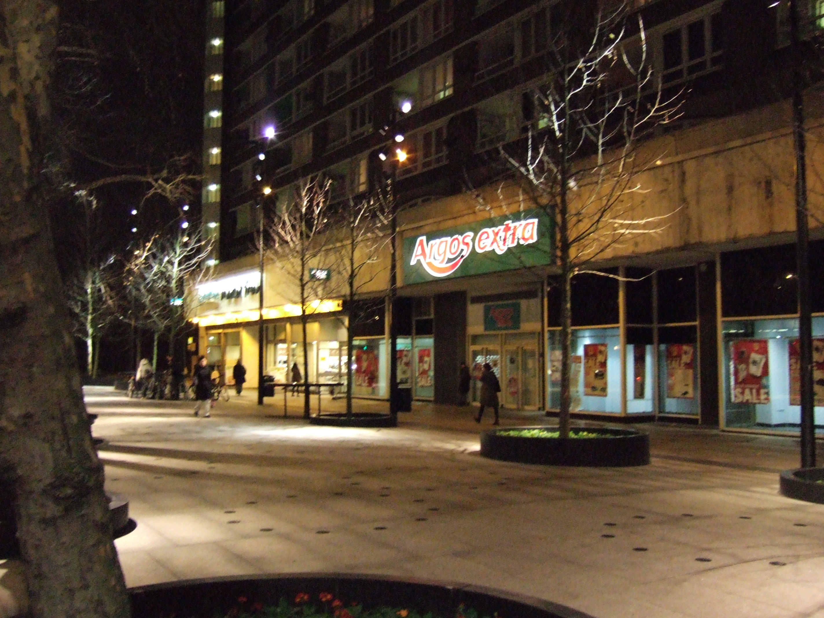 The Old Street Promenade of Light. Shops visible are Somerfield and Argos.